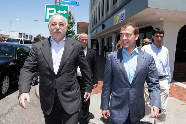 After Visit to Yandex Labs.